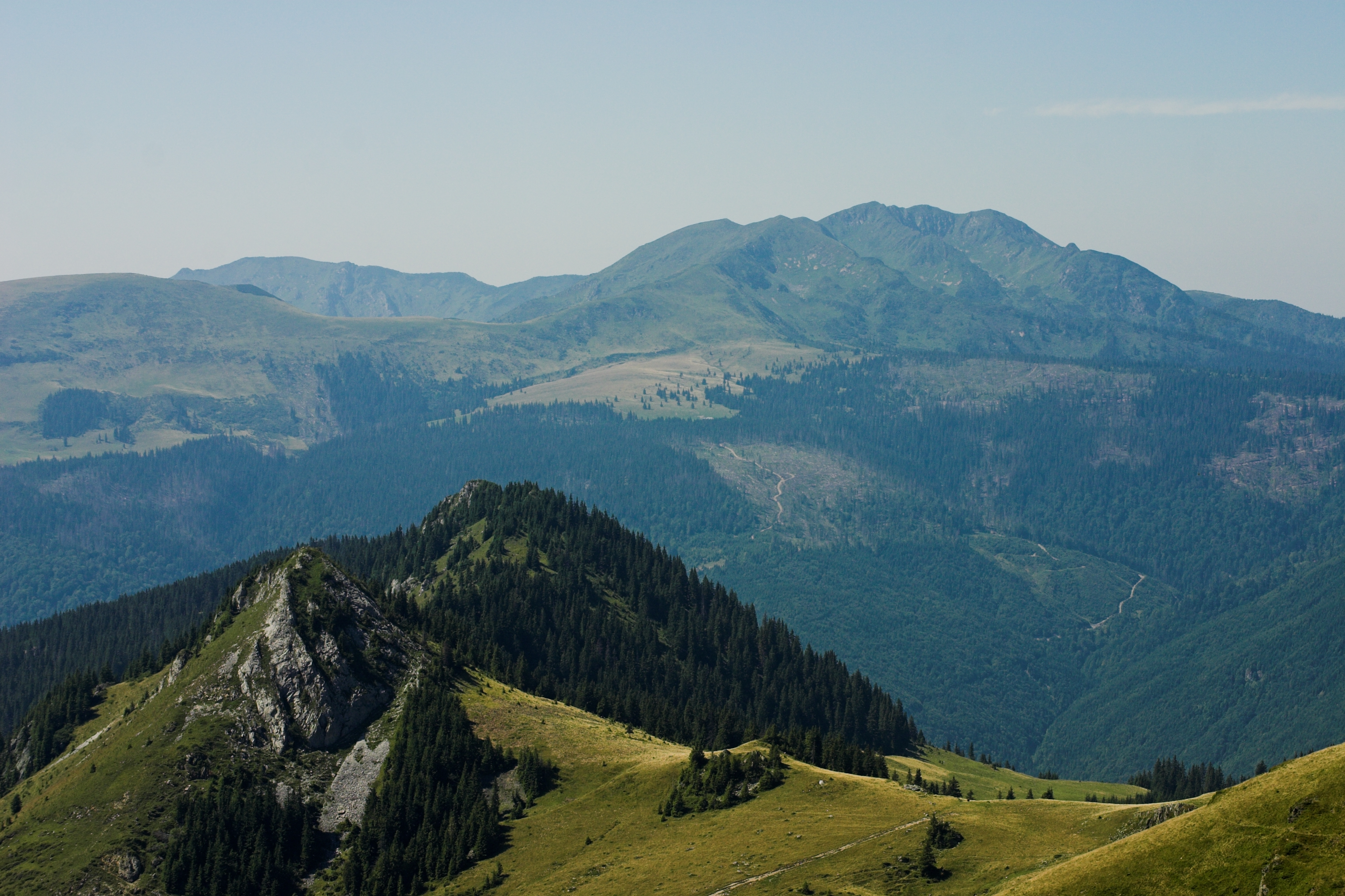 Massif of Pop Ivan in Maramureş Mountains. View from east from Farcău Massif.